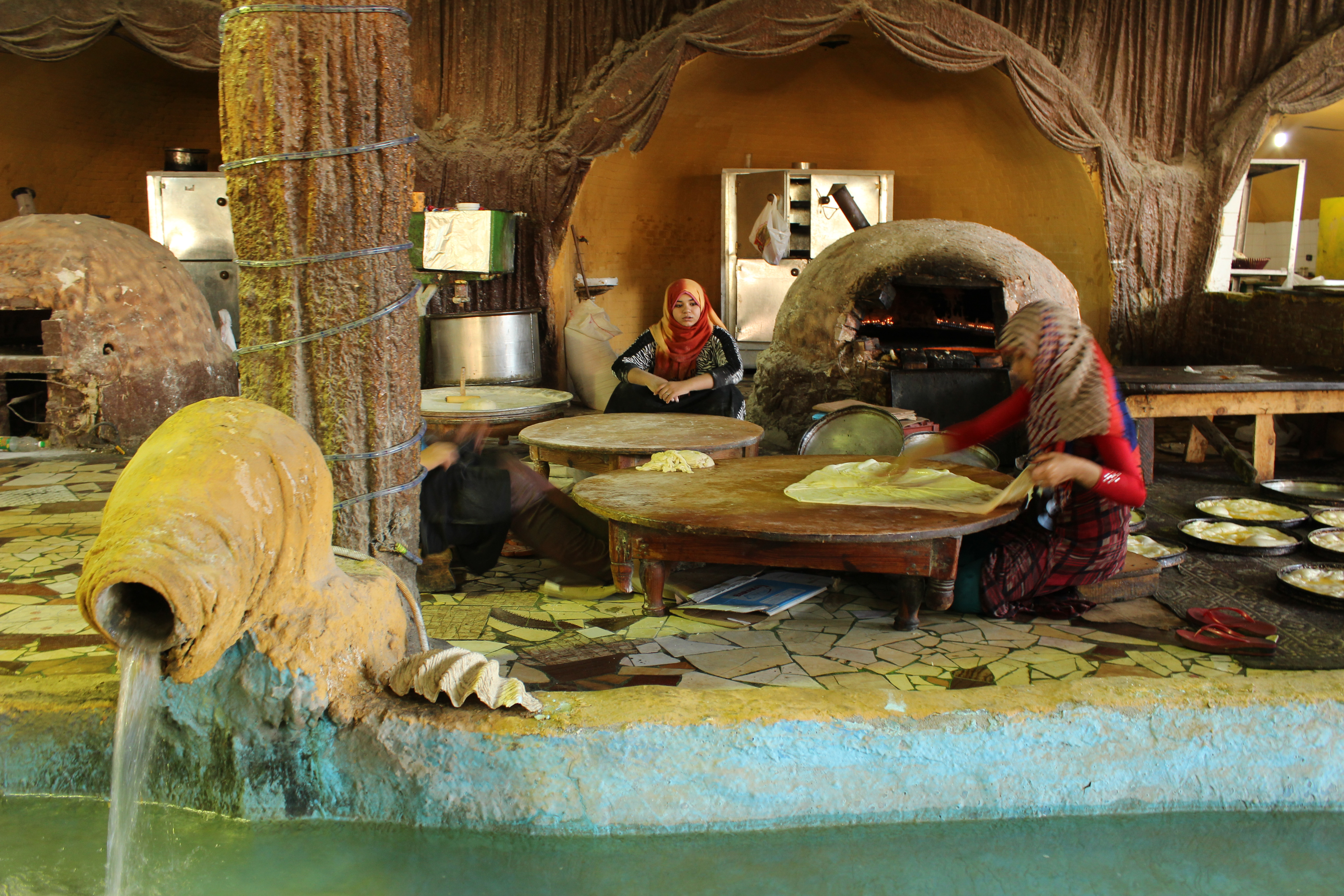 Feteer meshaltet